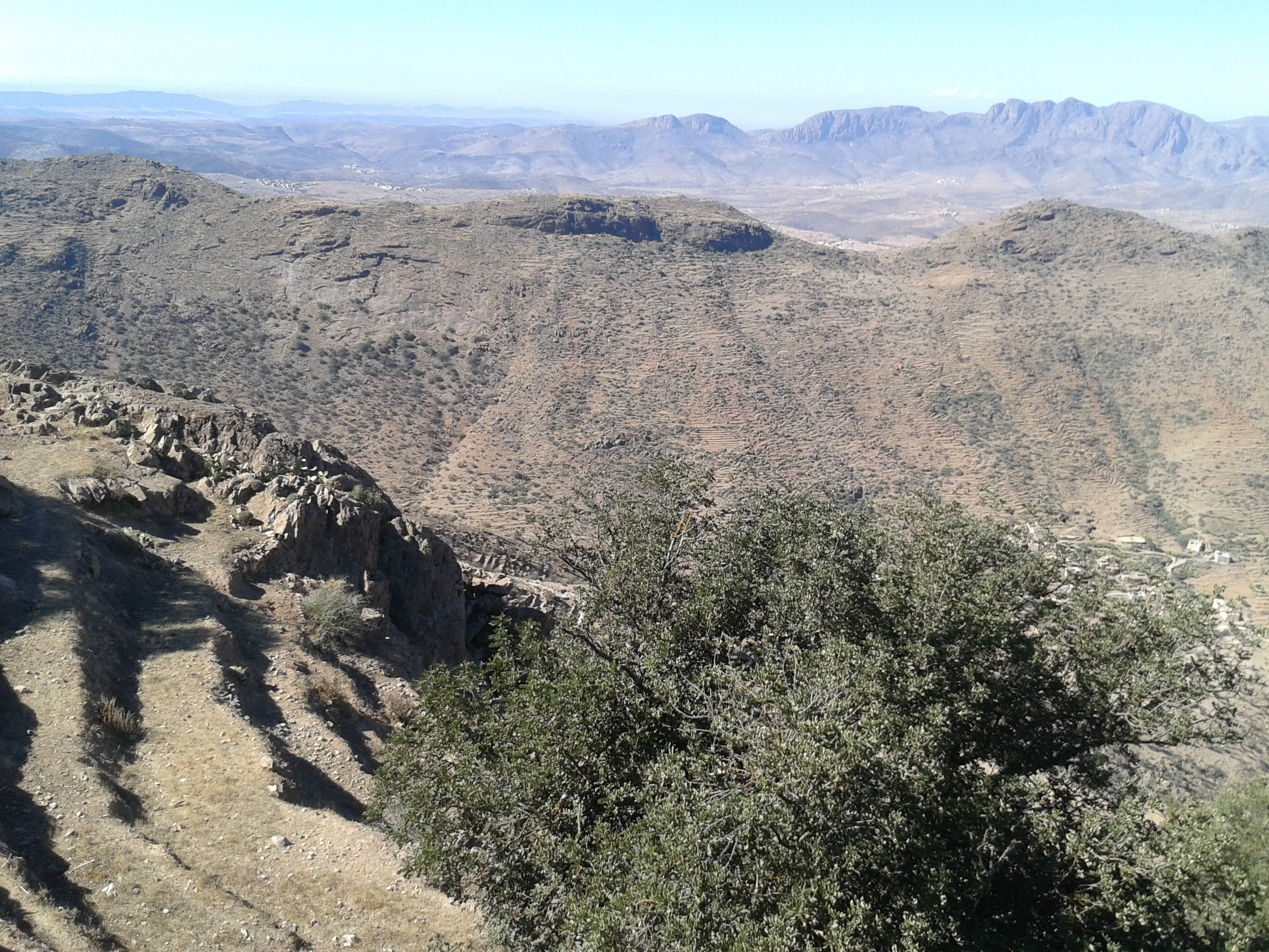 Sous